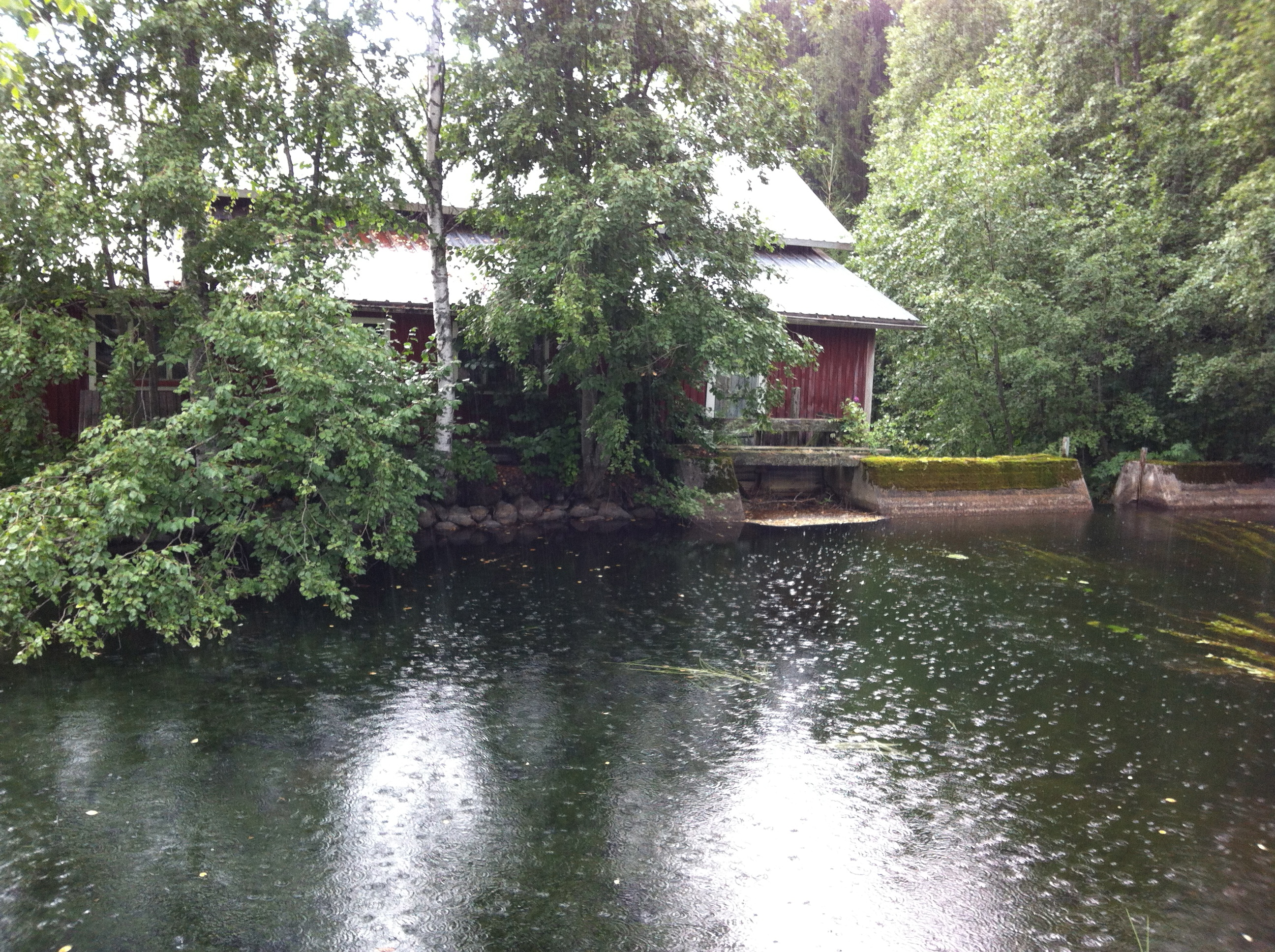 The Watermill in Kolkontaipale, Rantasalmi in Finland, at the northern end of the lake Kolkonjärvi. Built before 1690, when it was acquired by Anders Kyander from Erik Sölverarm, and still working, although normally run by an electric engine.